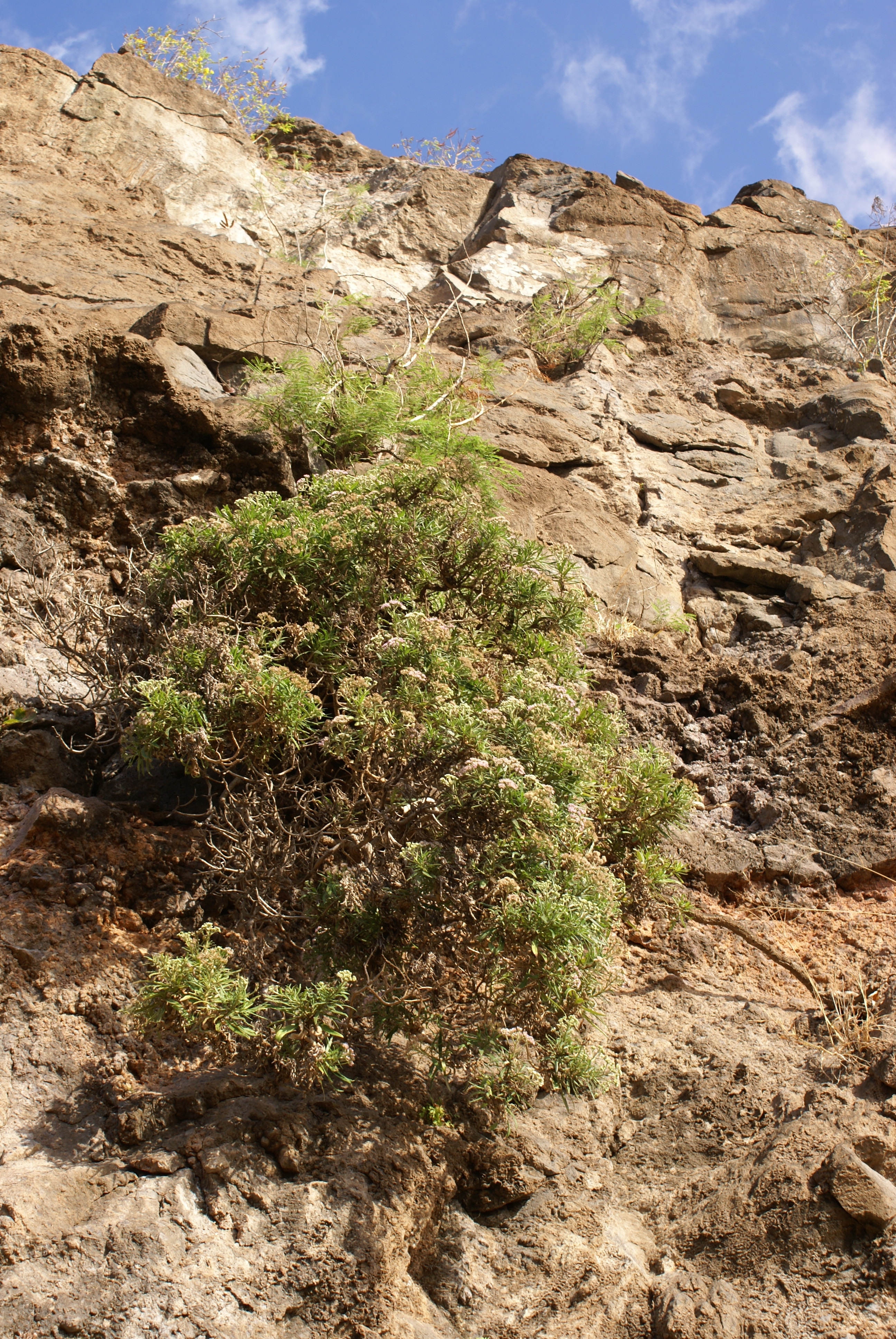 Monarrhenus salicifolius on northern cliffs of Réunion island